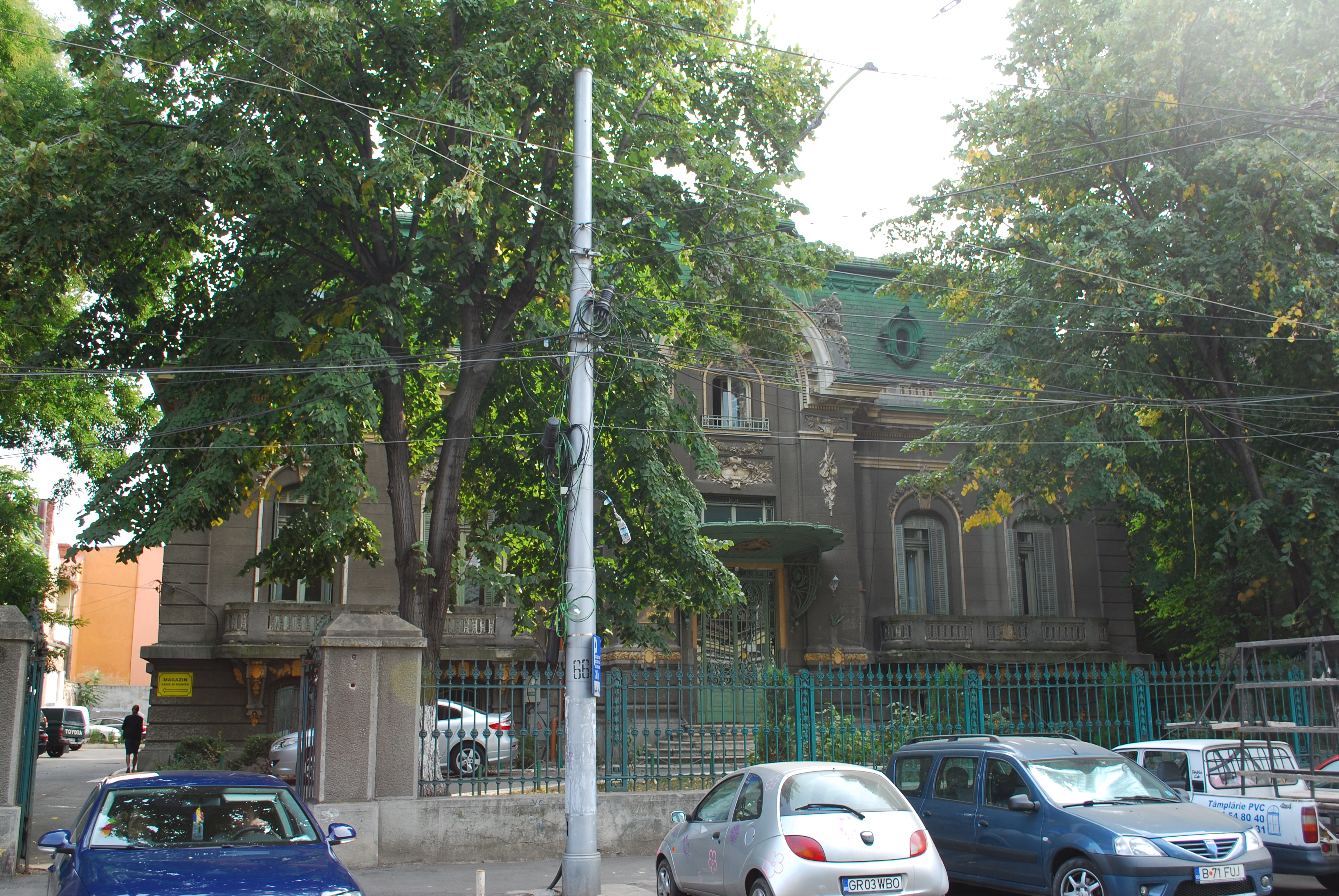 Bercovici house in Bucharest, Romania